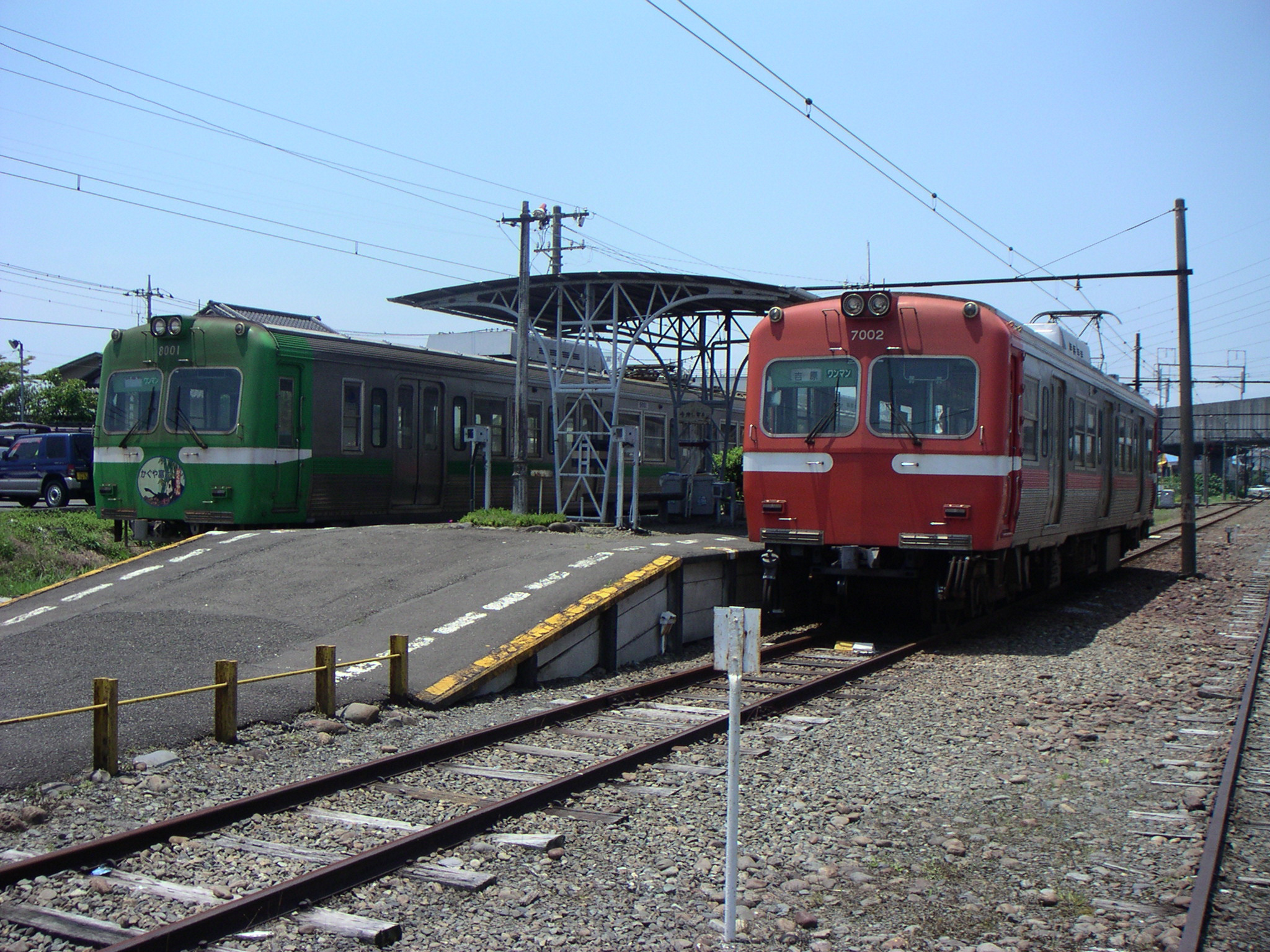 Platform of Gakunan-enoo Station